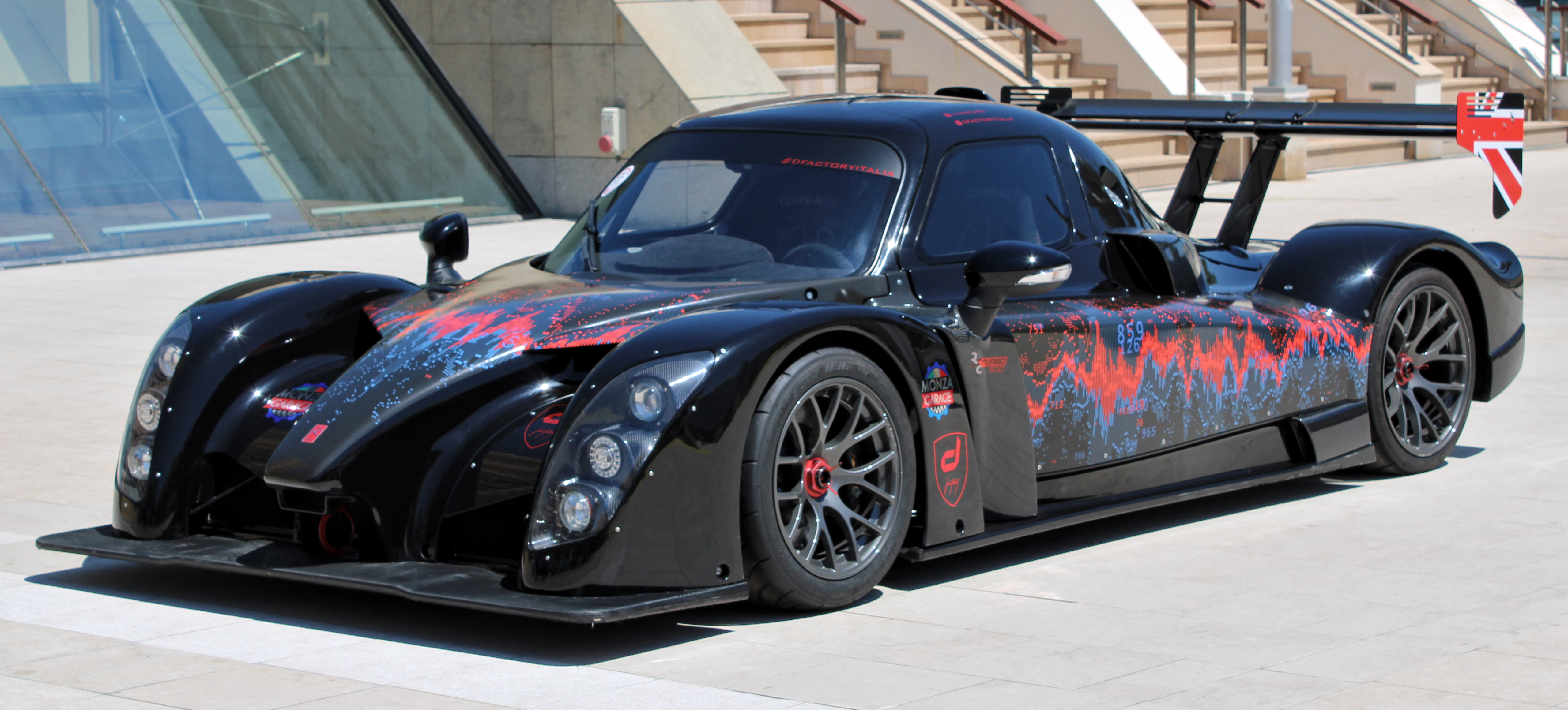 Radical RXC 500 Turbo at Top Marques 2019